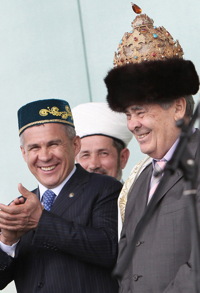 “Izge Bolgar zhyeny festivities, dedicated to 1,121st anniversary of adoption of Islam by ancestors of Tatars in Volga Bulgaria”. President of Tatarstan Rustam Minnikhanov (left) and adviser to the President of Tatarstan Mintimer Shaimiev (right), wearing a copy the Kazan hat during the Izge Bolgar zhyeny festivities, dedicated to the 1,121st anniversary of the adoption of Islam by the ancestors of the Tatars in the Volga Bulgaria.